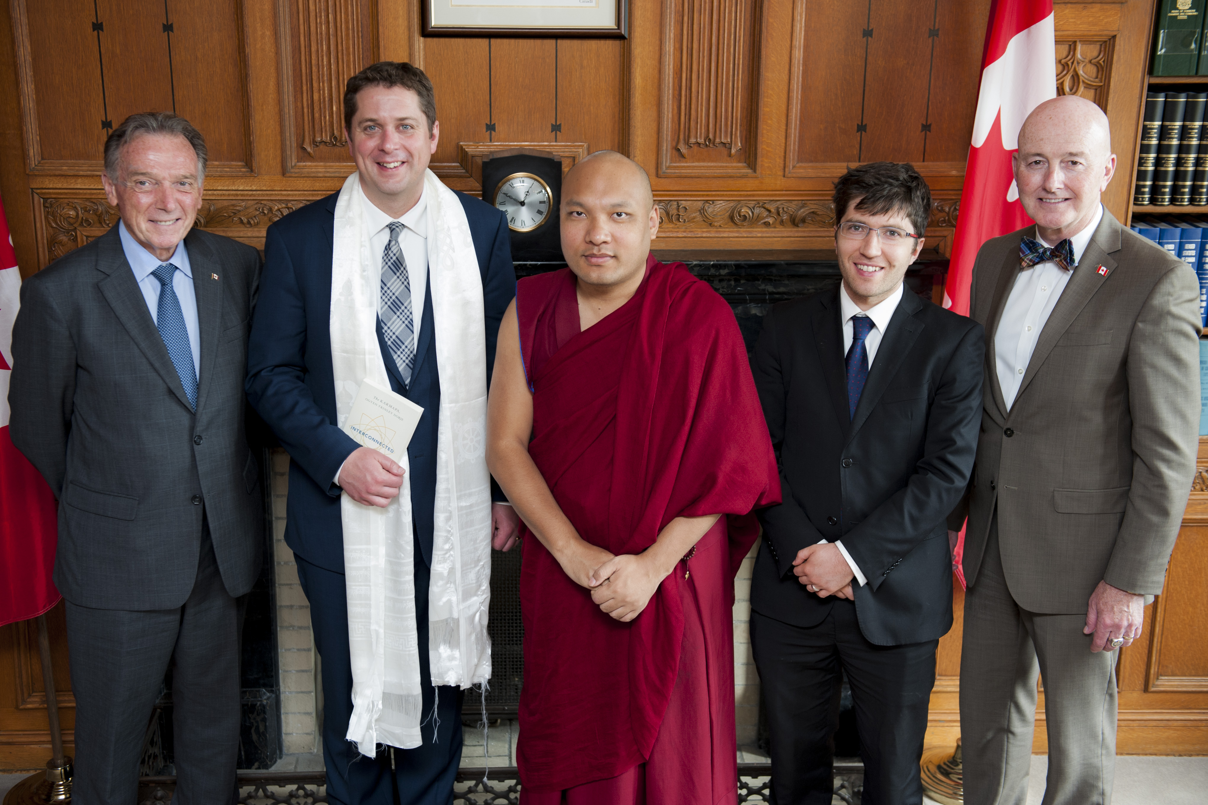 Honoured to meet with His Holiness the 17th Gyalwang Karmapa, along with my colleagues David Sweet, Garnett Genuis, and Peter Kent. We spoke about the importance of human rights and religious freedom in Tibet. J'ai été honoré de rencontrer Sa Sainteté le 17e Gyalwang Karmapa avec mes collègues David Sweet, Garnett Genuis et Peter Kent. Nous avons parlé de l’importance des droits humains et de la liberté de religion au Tibet.